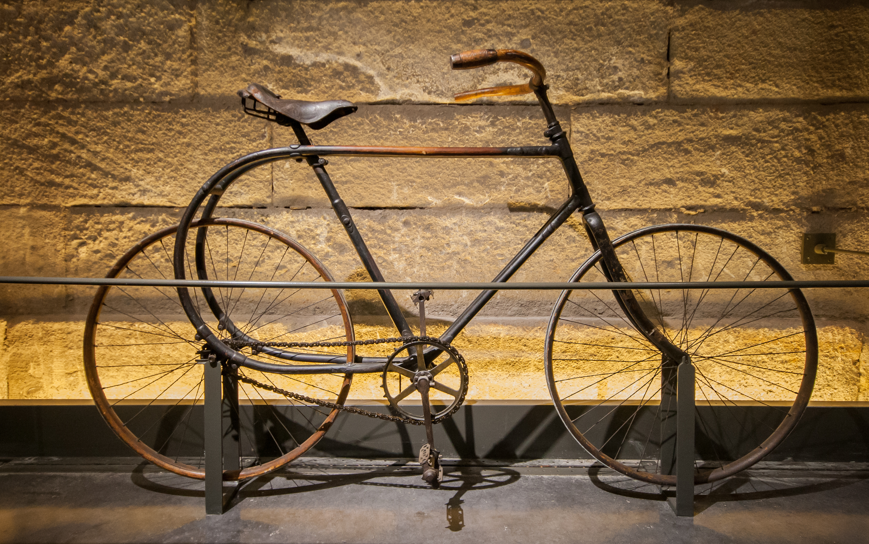 Bentwood frame Bicycle The Souplette, made ​​in Paris in 1897. Cycles' Department in Saint-Étienne, Museum of Art and Industry.